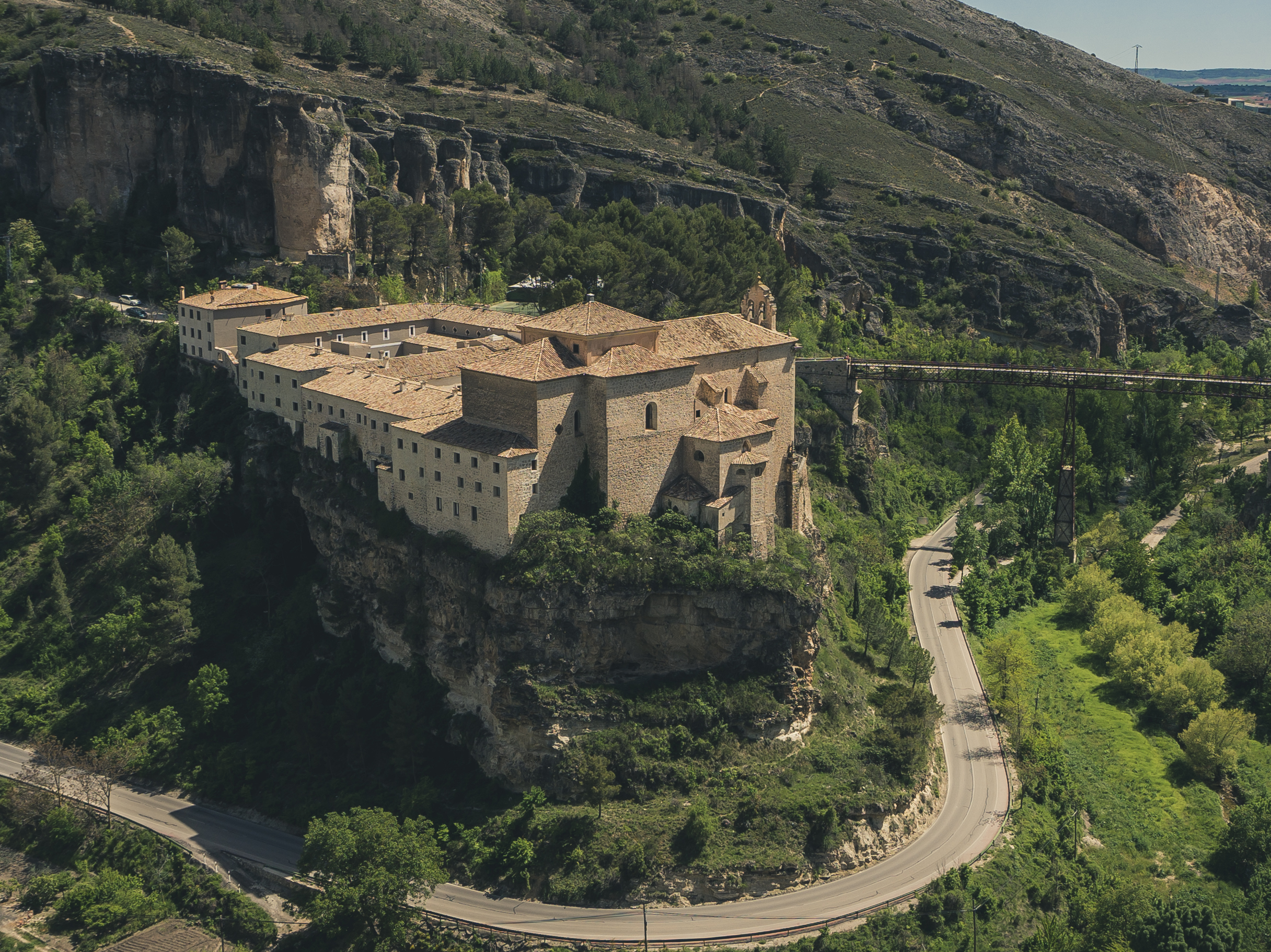 Shot in Cuenca, Castilla La Mancha, Spain on Sony E mount